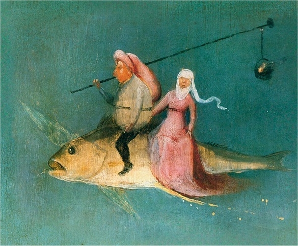 Flying fish with two people - detail of the painting Temptation of Saint Anthony